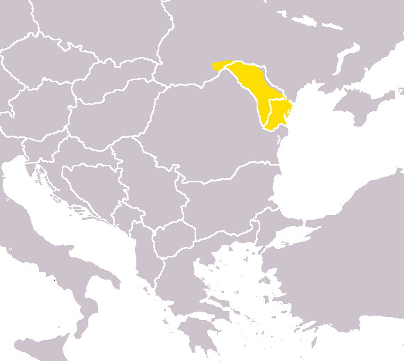 This image was copied from en. The original description was